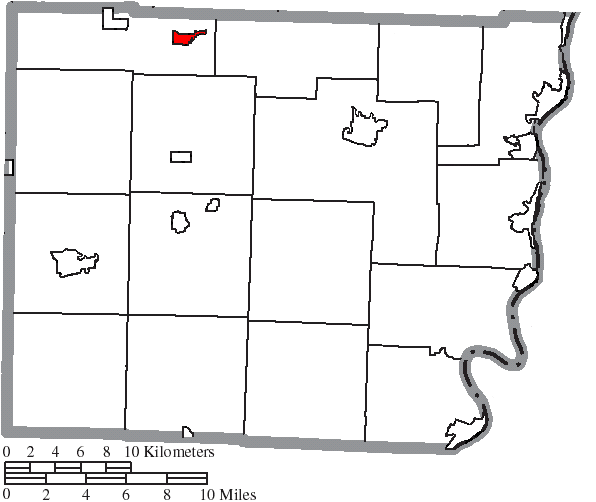 Map of the municipal and township boundaries of Belmont County, Ohio, United States, as of the 2000 census, with the location of the village of Flushing highlighted. Township borders are shown only in unincorporated areas in order to differentiate incorporated and unincorporated areas more clearly.